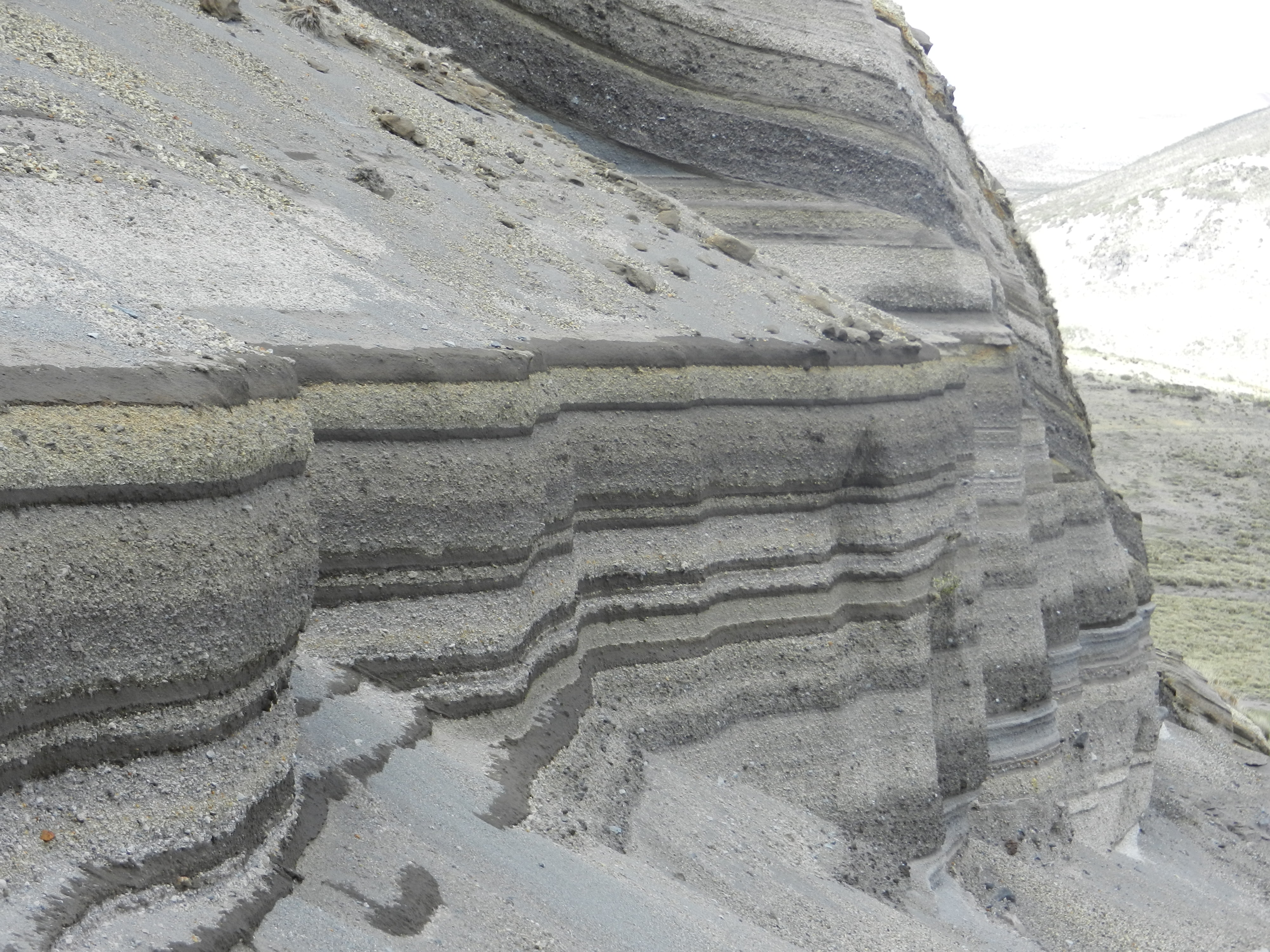 Layers of sand and volcanic ash around the volcano Chimborazo, Ecuador